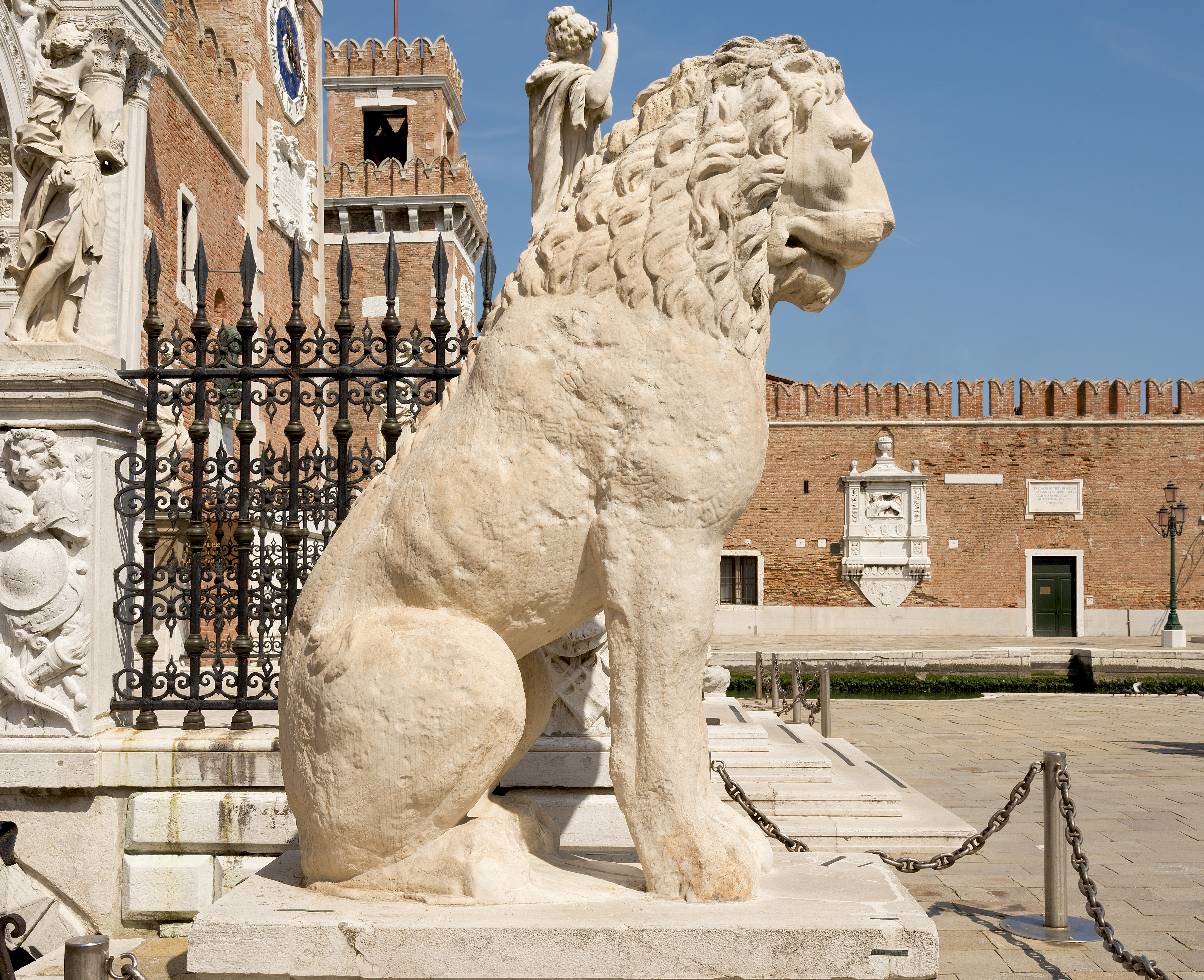 The First lion standing at the left side of the Door land the Arsenal of Venice is ancient Greek sculpture, originally at the Piraeus in Athens, brought to Venice by Francesco Morosini, who conquered the Peloponnesus.